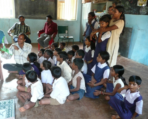 XO with Internet connection, Khairat (India)